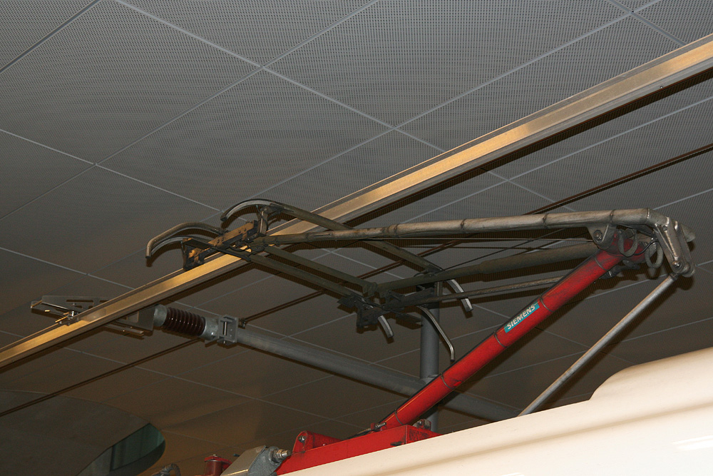 Pantograph on a overhead conductor rail at the new Hauptbahnhof (main railway station) in Berlin.